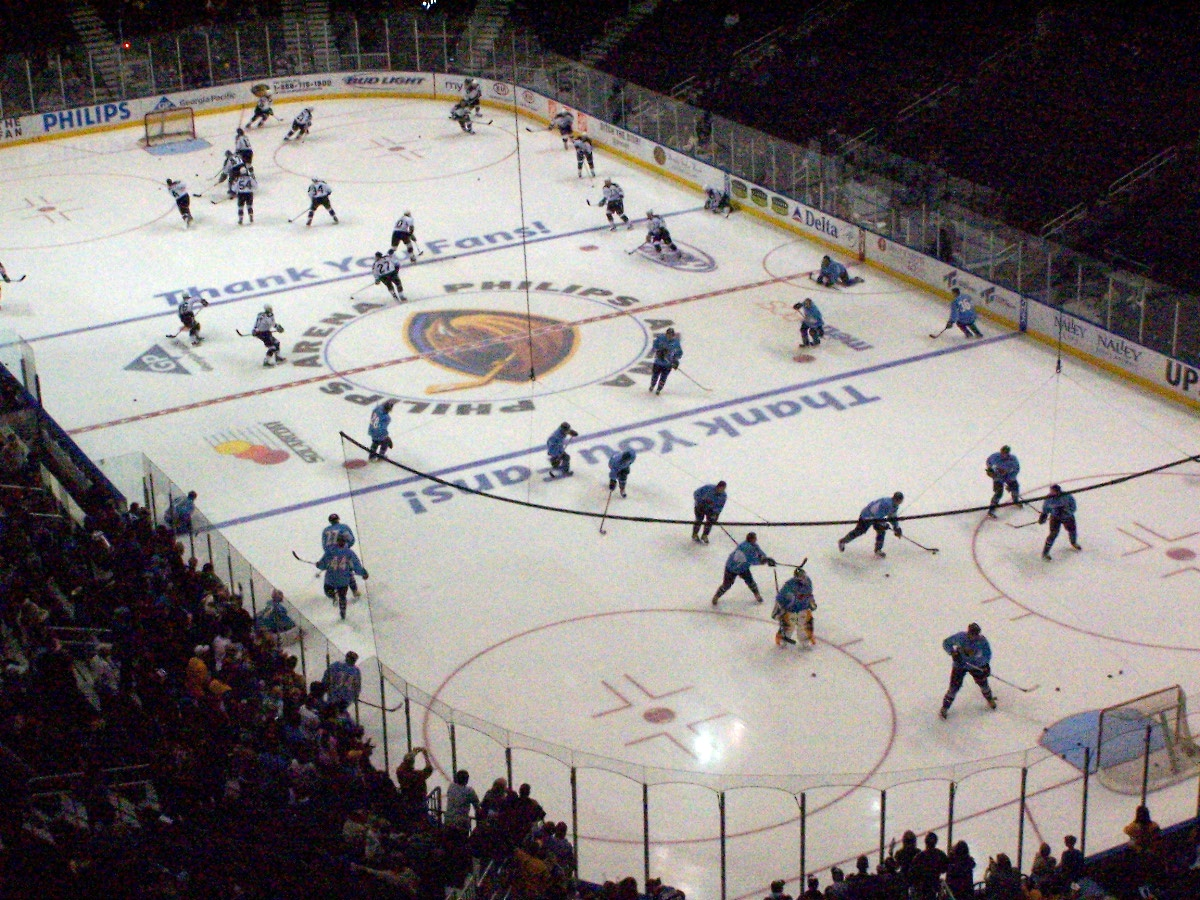 Atlanta Thrashers & Tampa Bay Lightning warming up, in Atlanta, Georgia